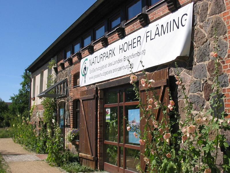 Natural preserve center „Alte Brennerei“ (german for „old distillery“) in the Naturpark Hoher Fläming in Raben. The village Raben is a part of the municipality Rabenstein/Fläming in the district Potsdam Mittelmark, state Brandenburg, Germany.